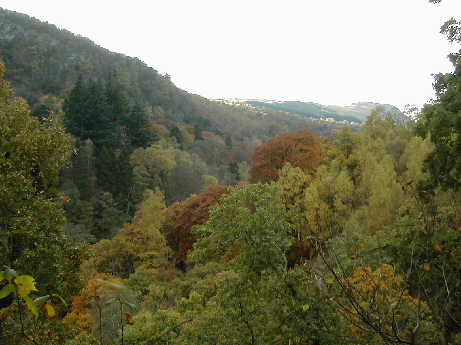 Nom du fichier : DSCN2467.JPG Taille du fichier : 375.3 Ko (384321 octets) Date : 2003/10/25 17:19:13 Taille de l'image : 1600 x 1200 pixels Résolution : 300 x 300 ppp Profondeur en bits : 8 bits/canal Attribut de protection : Désactivé Attribut Masqué : Désactivé ID de l'appareil : N/A Appareil : E775 Mode de qualité : NORMAL Mode de mesure : Multizones Mode d'exposition : Programme Auto Speed Light : Non Distance Focale : 8.6 mm Vitesse d'obturation : 1/76.4 seconde Ouverture : F3.3 Correction d'exposition : 0 IL Balance des blancs : Auto Objectif : Intégré Mode Synchro-Flash : Premier Rideau Différence d'exposition : N/A Programme Décalable : N/A Sensibilité : Auto Renforcement de la netteté : Auto Type d'image : Couleur Mode Couleur : N/A Saturation : N/A Contrôle Saturation : N/A Compensation des tons : Normal Latitude (GPS) : N/A Longitude (GPS) : N/A Altitude (GPS) : N/A